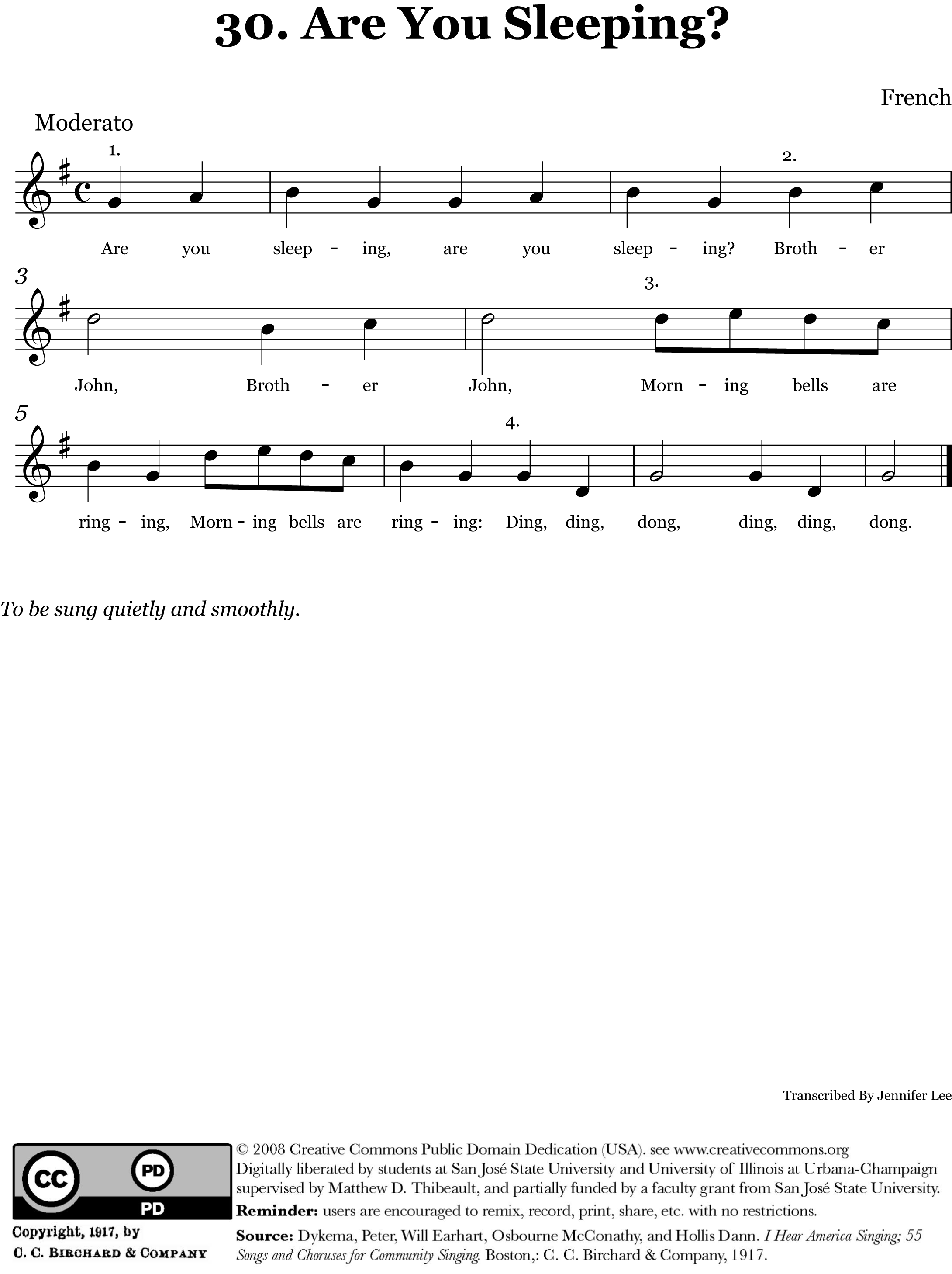 Are You Sleeping?